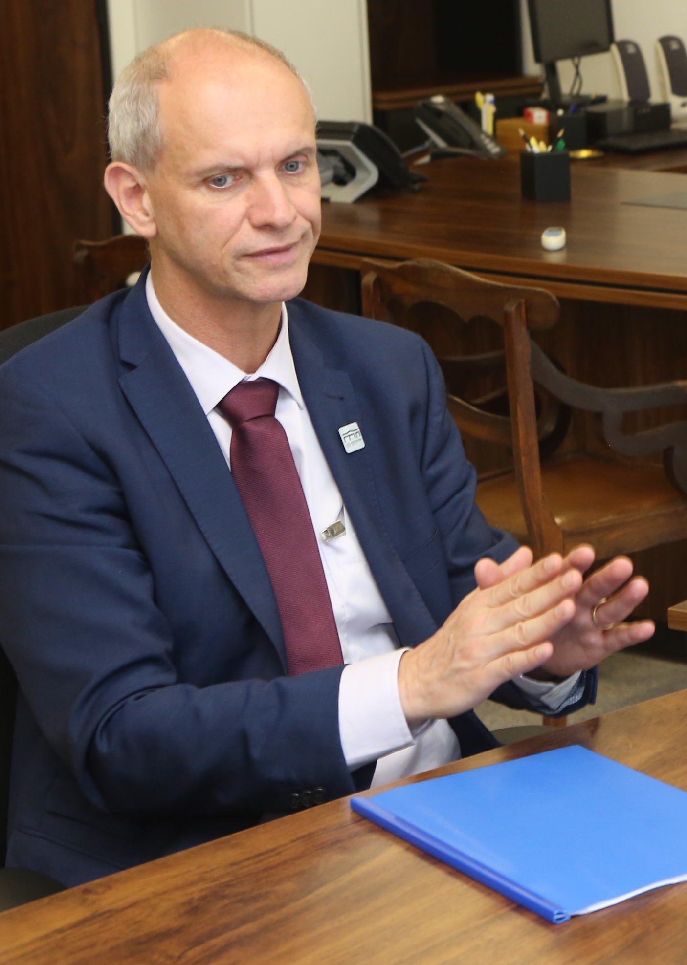 Brazilian palaeontologist Alexander W. A. Kellner during a meeting at the Ministry of Science, Technology, Inovation, and Communication in Brasilia, Brazil.